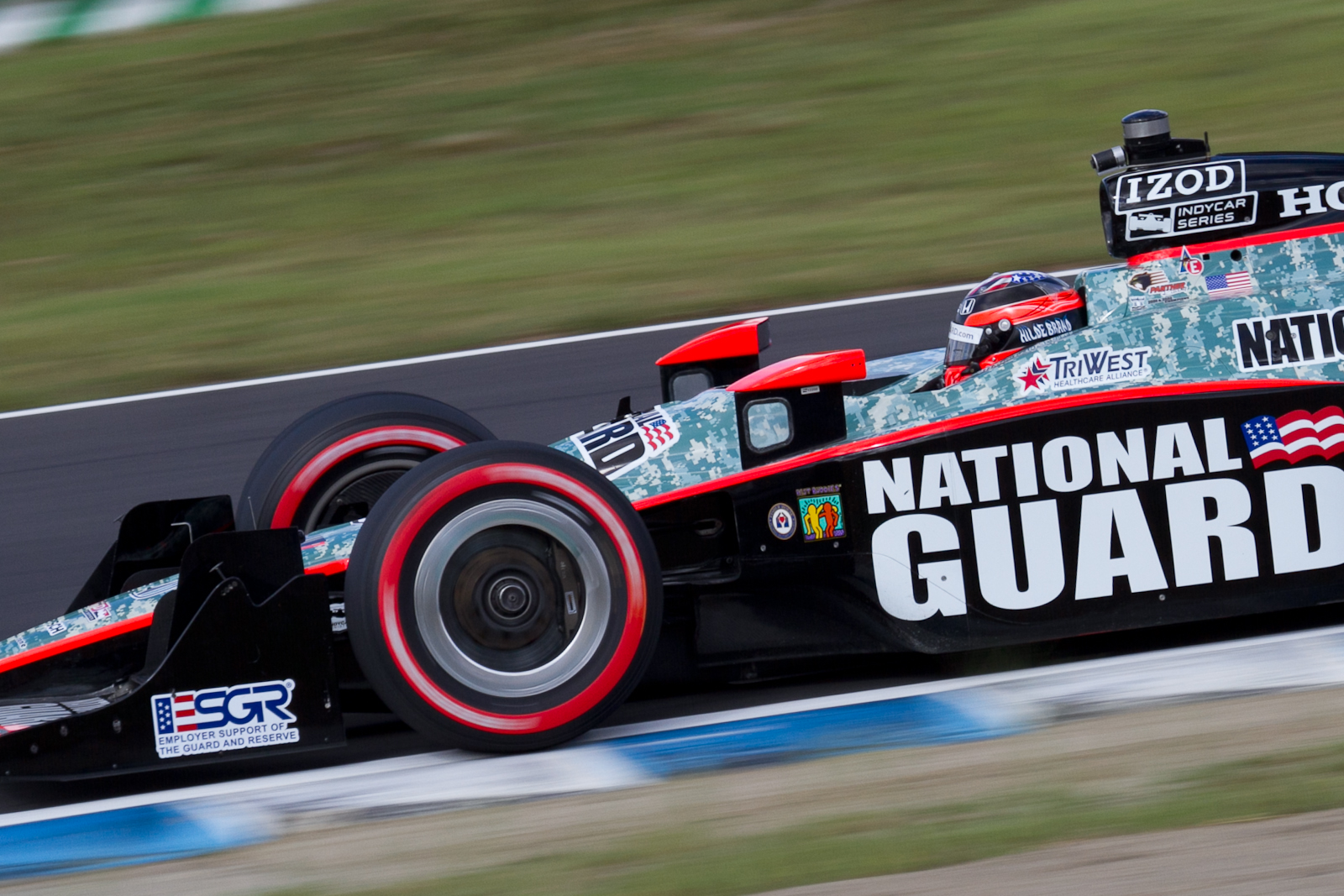 IndyCar Series 2011 Rd.15 Indy Japan 300: J. R. Hildebrand (Panther Racing)